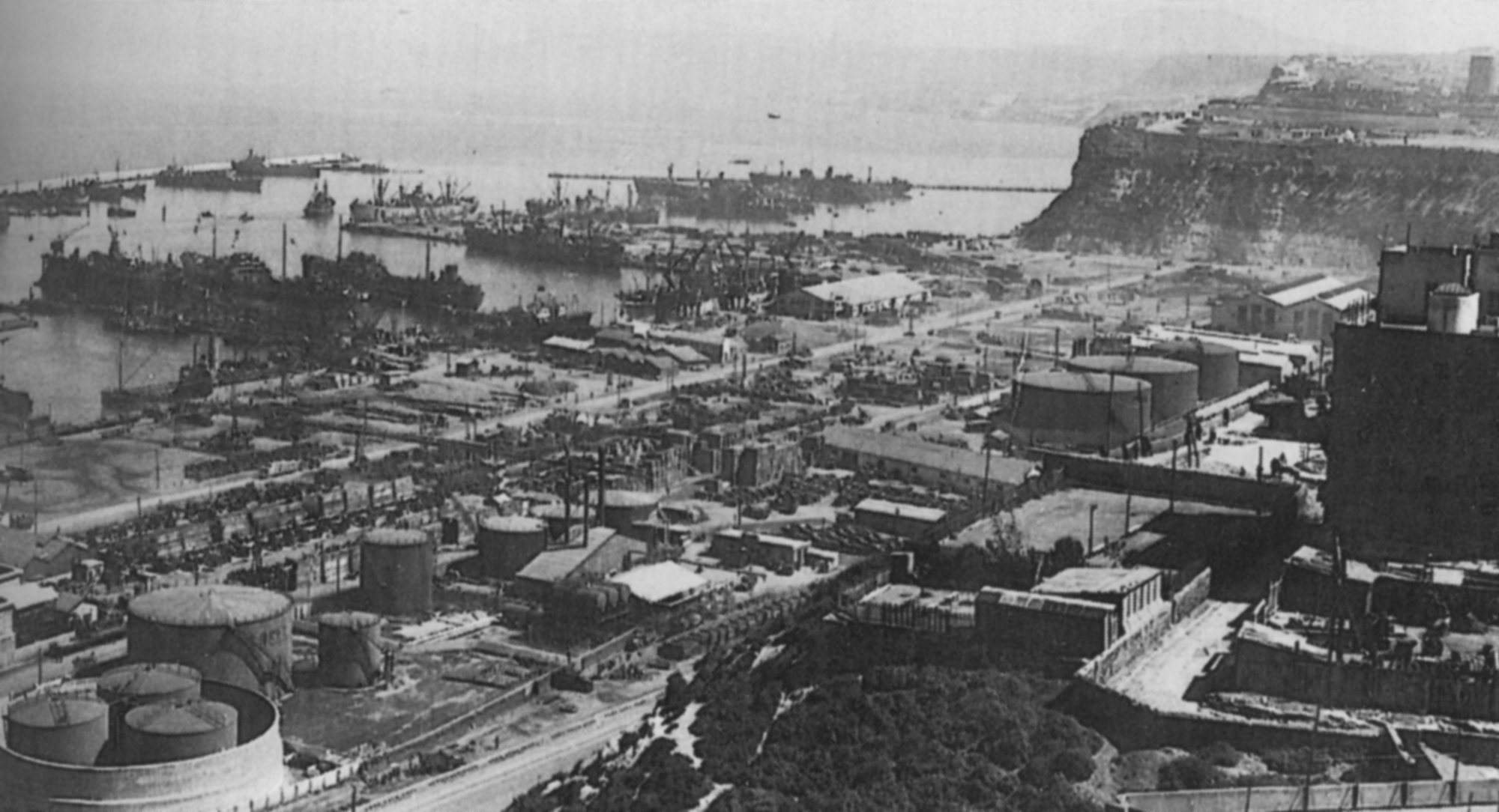 Oran harbour, Algeria.